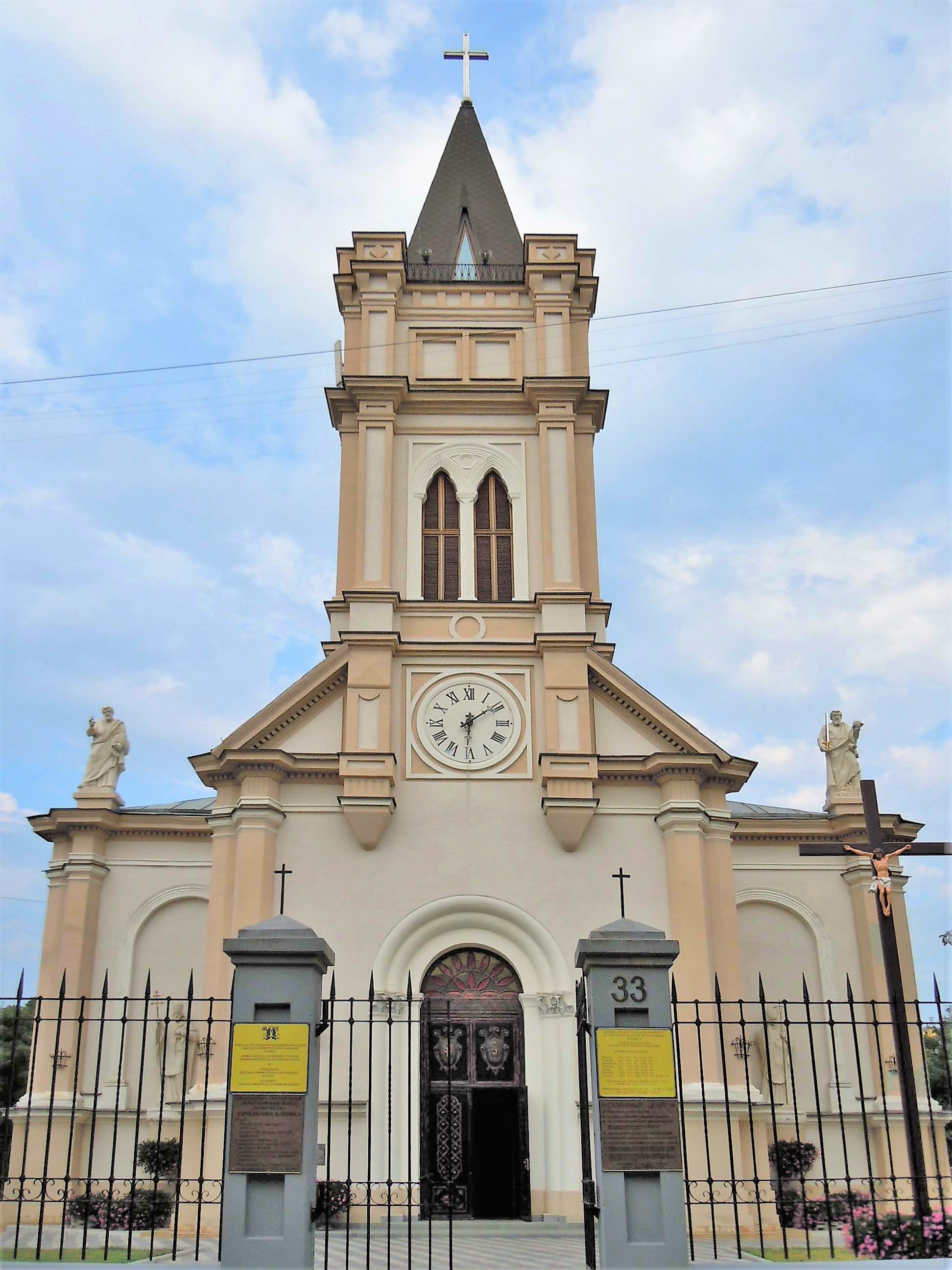 Roman Catholic Cathedral of Assumption of the Virgin Mary in Odessa, Ukraine